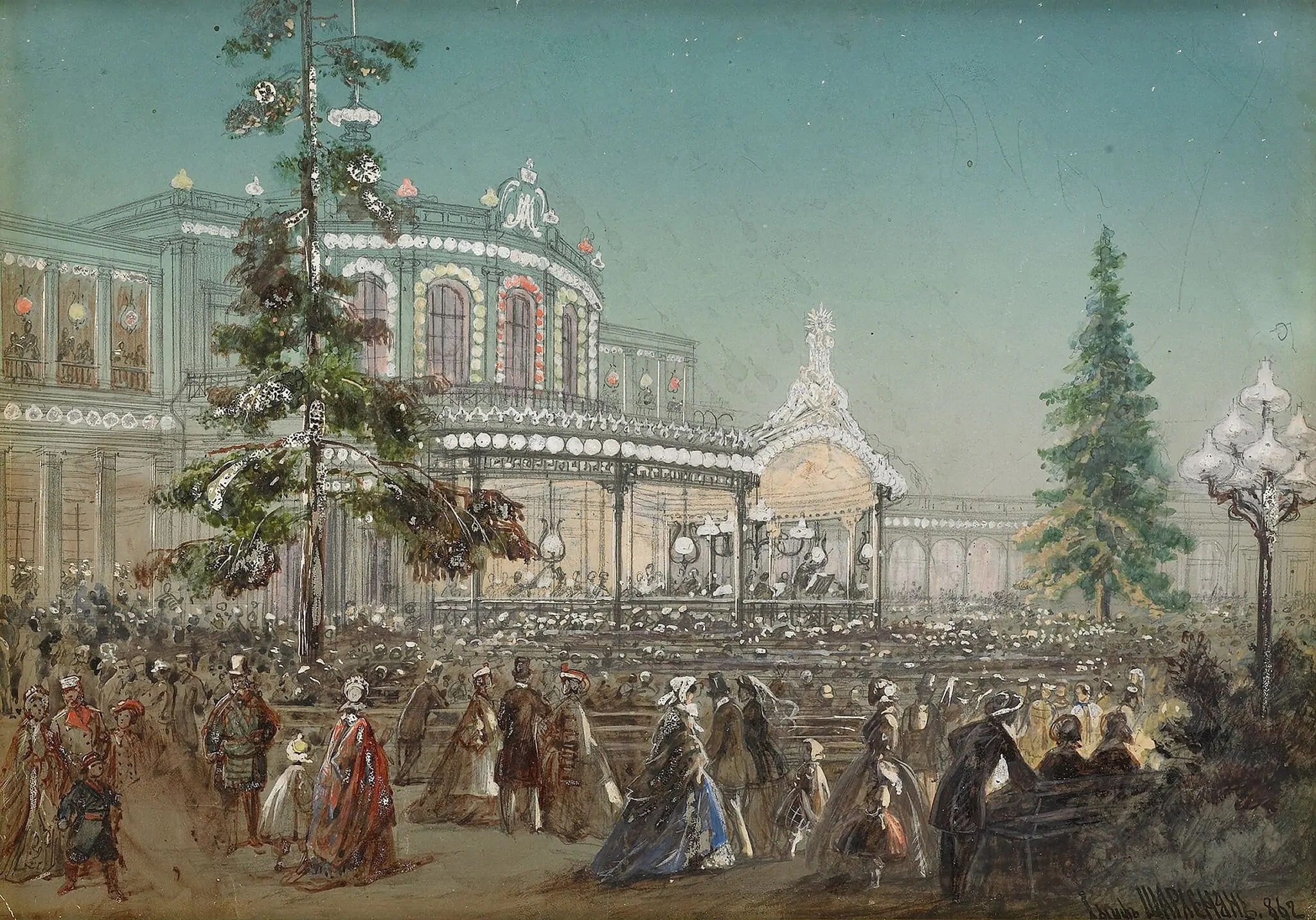 Celebration of the 25th Anniversary of Tsarskoe Selo Railroad at the Pavlovsk Railway Station Concert Hall. 1862. gouache.